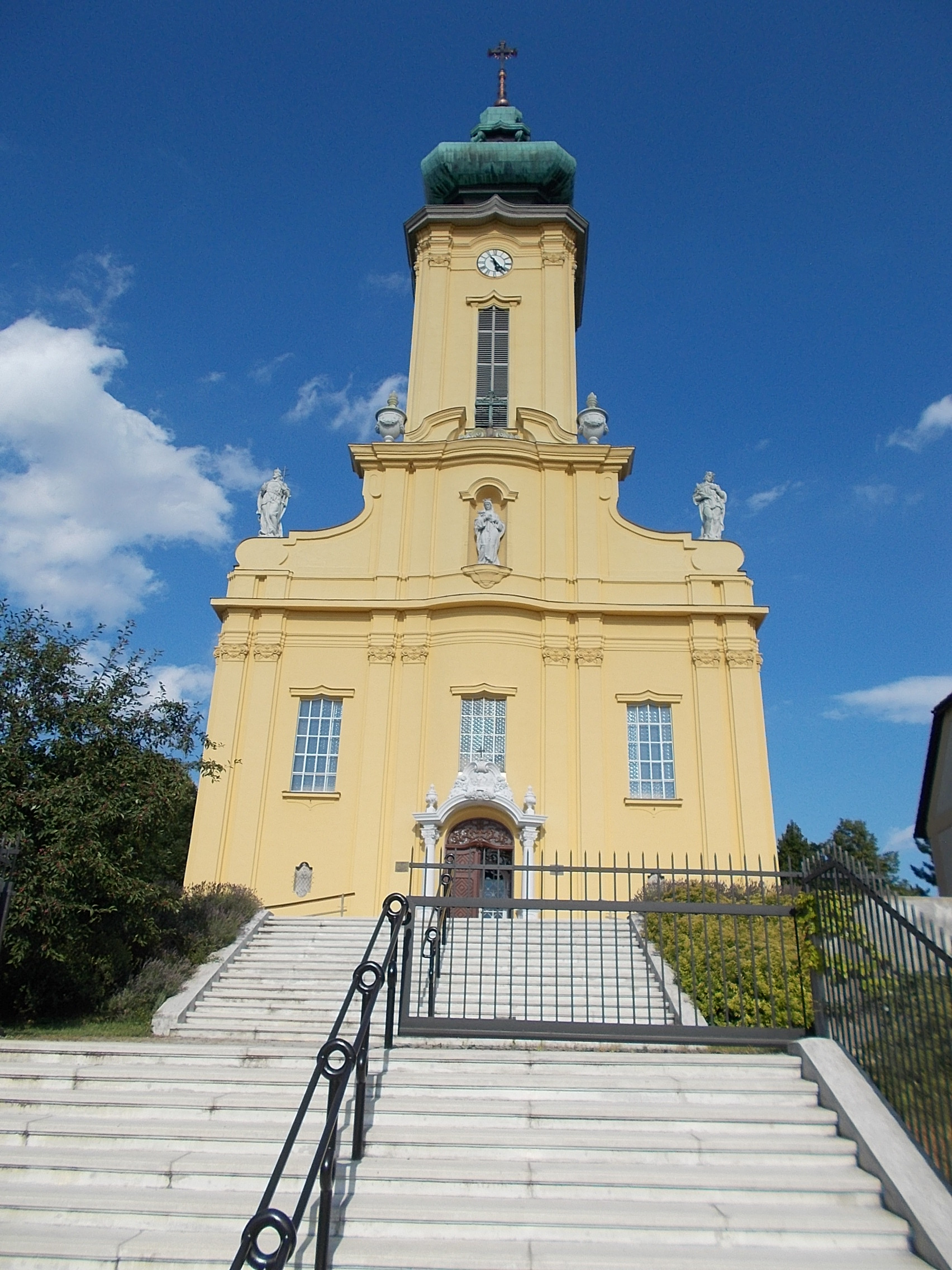 Saint Margaret of Hungary church. Built in 1938 planned by György Linczmájer, László Irsik and Gusztáv Kapuváry. - Jutasi út, , Veszprém, Veszprém County, Hungary.